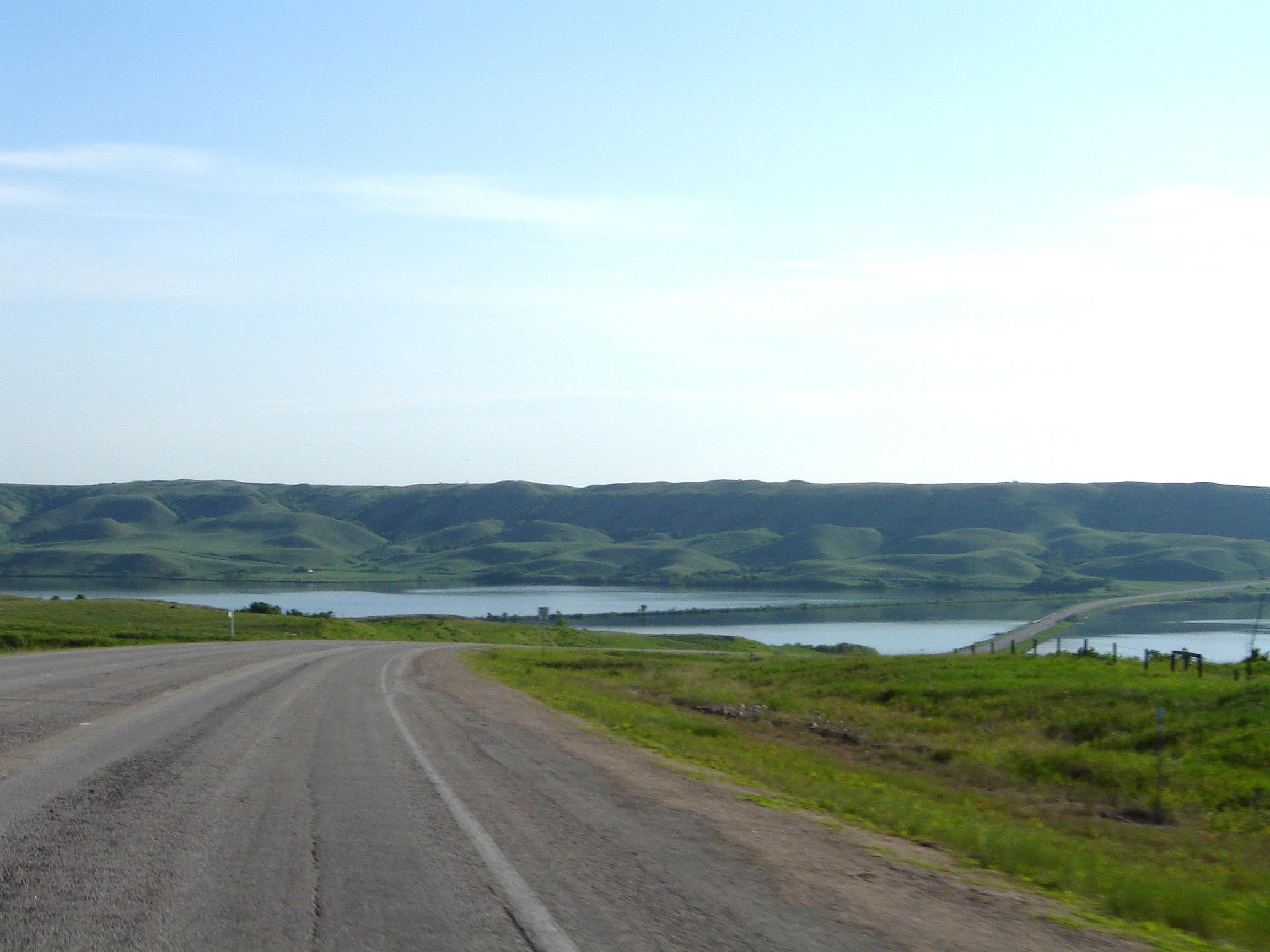 Buffalo Pound Lake' on the Qu'Appelle River Photo taken from Saskatchewan Highway 2 travelling north from Moose Jaw to Saskatchewan Highway 11